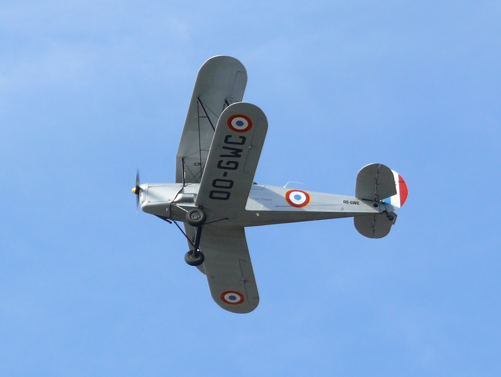 Stampe en Vertongen SV.4A (OO-GWC) at the festivities commemorating 100 years of Aviation Week at Temse.